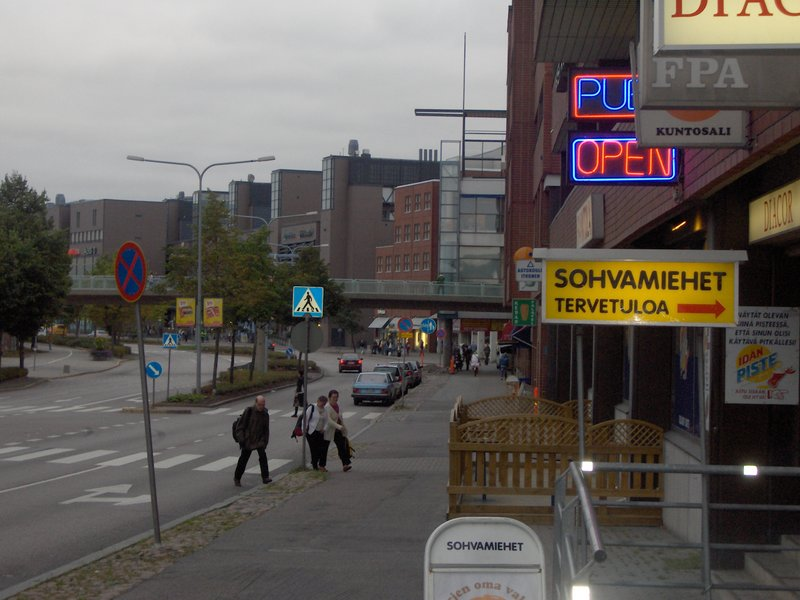 Itis shopping mall, Helsinki, Finland. -Seen from west.